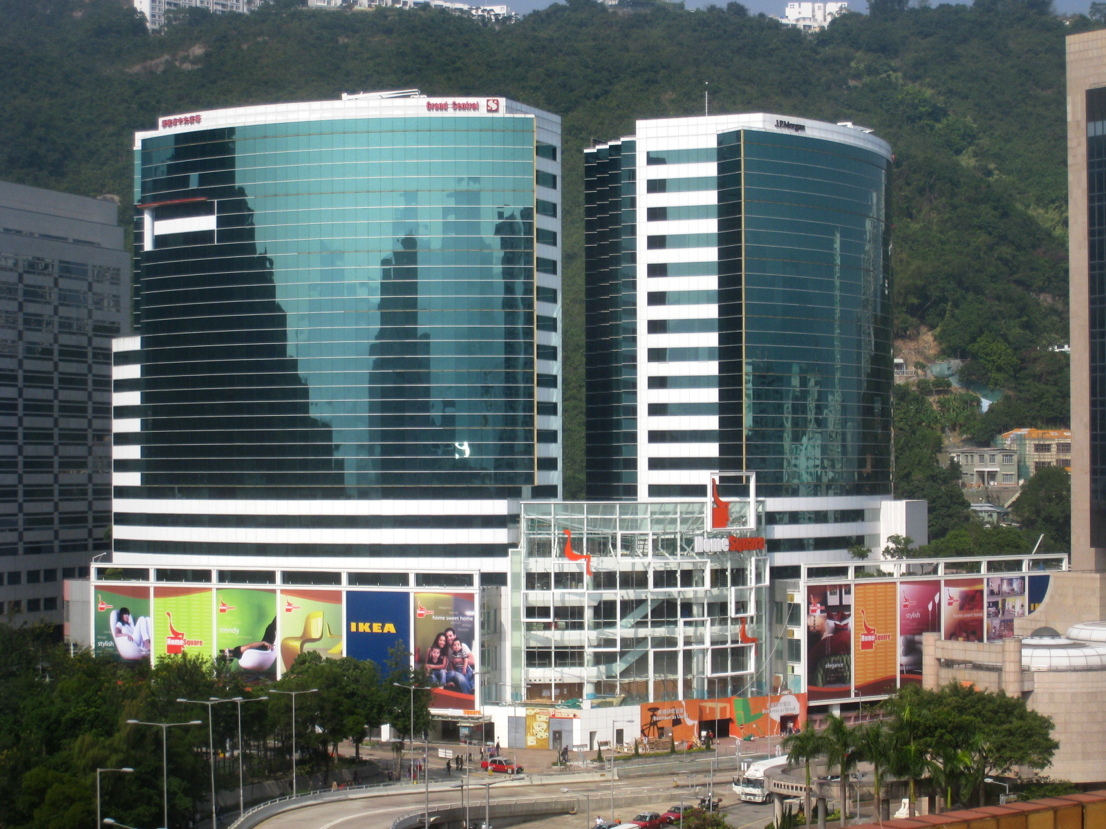 HomeSquare in Shatin